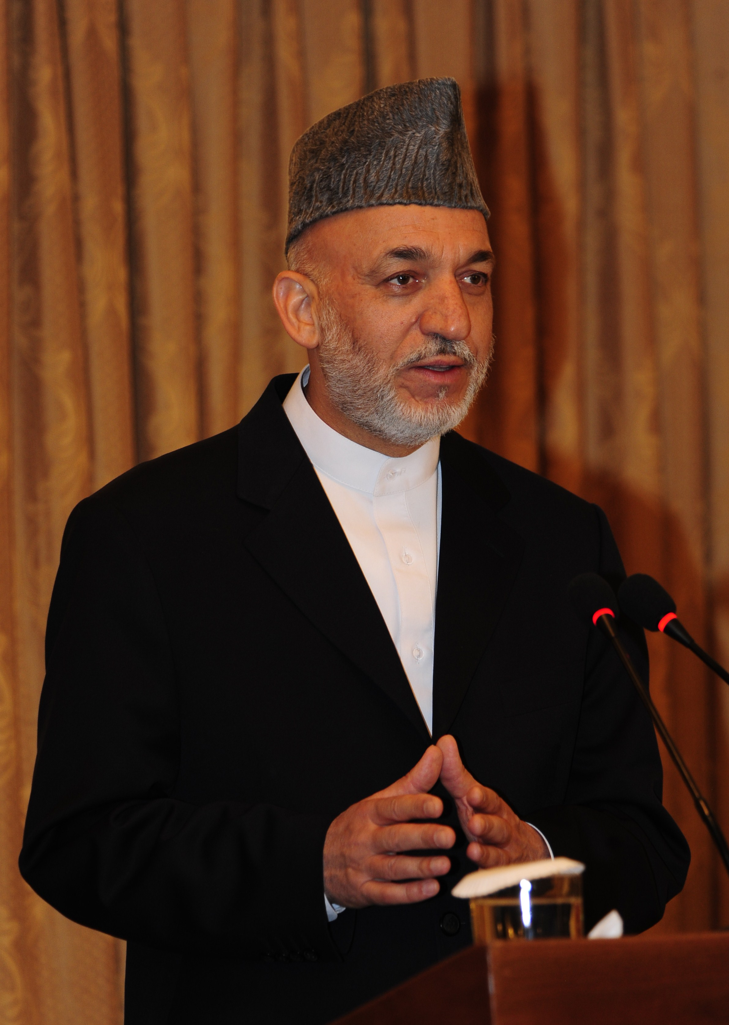 KABUL, Afghanistan- Afghan President Hamid Karzai talks with the press during a joint press conference with NATO’s newly appointed Secretary General, Anders Fogh Rasmussen at the presedential palace. Image by MSgt Chris Haylett